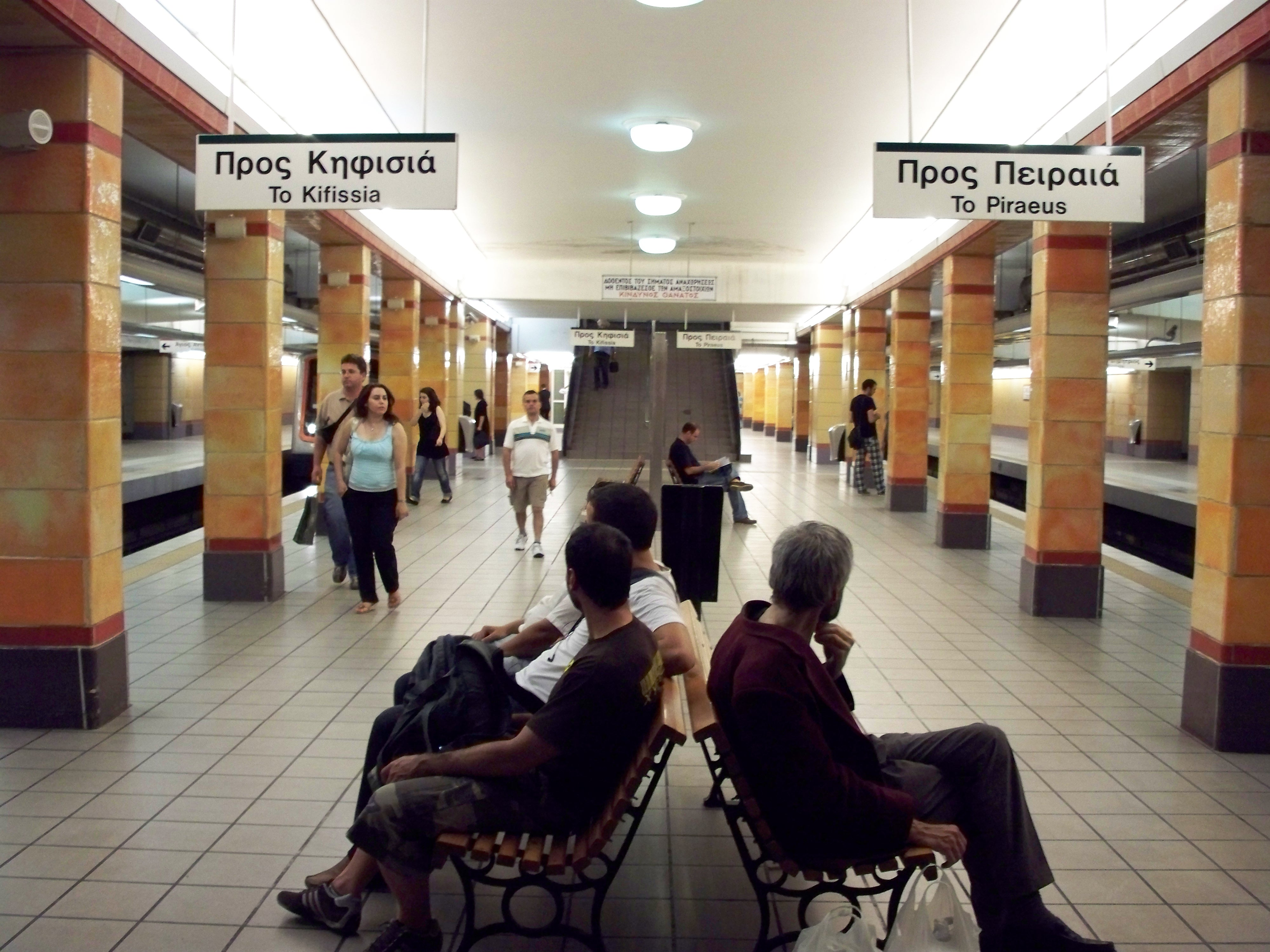 Omonoia station of the Athens Metro.